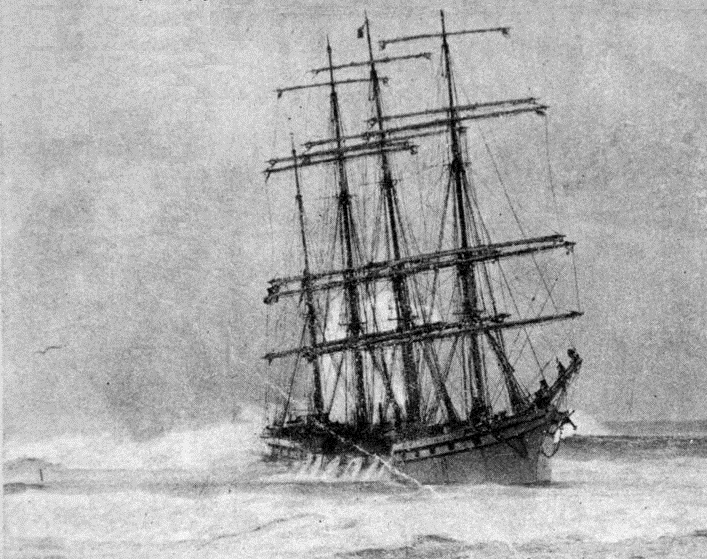 Adolphe (ship) - Caption: Wreck of Barque 'Adolphe' on the Oyster Bank, Newcastle, 30/9/'04. Photograph taken by R. H. Hunter, Newcastle.